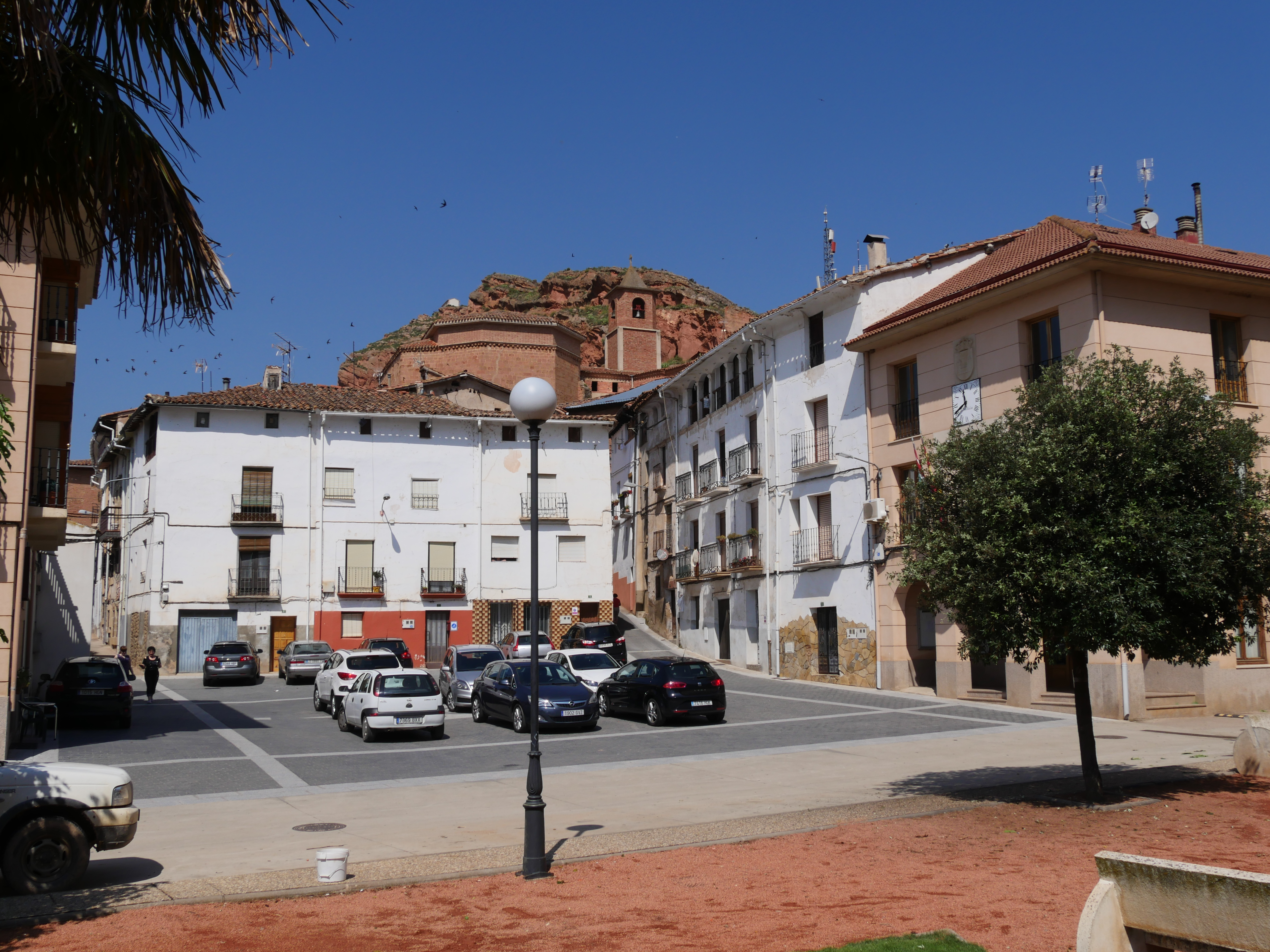 View of the village of Herce, La Rioja, Spain, from La Constitución Square.